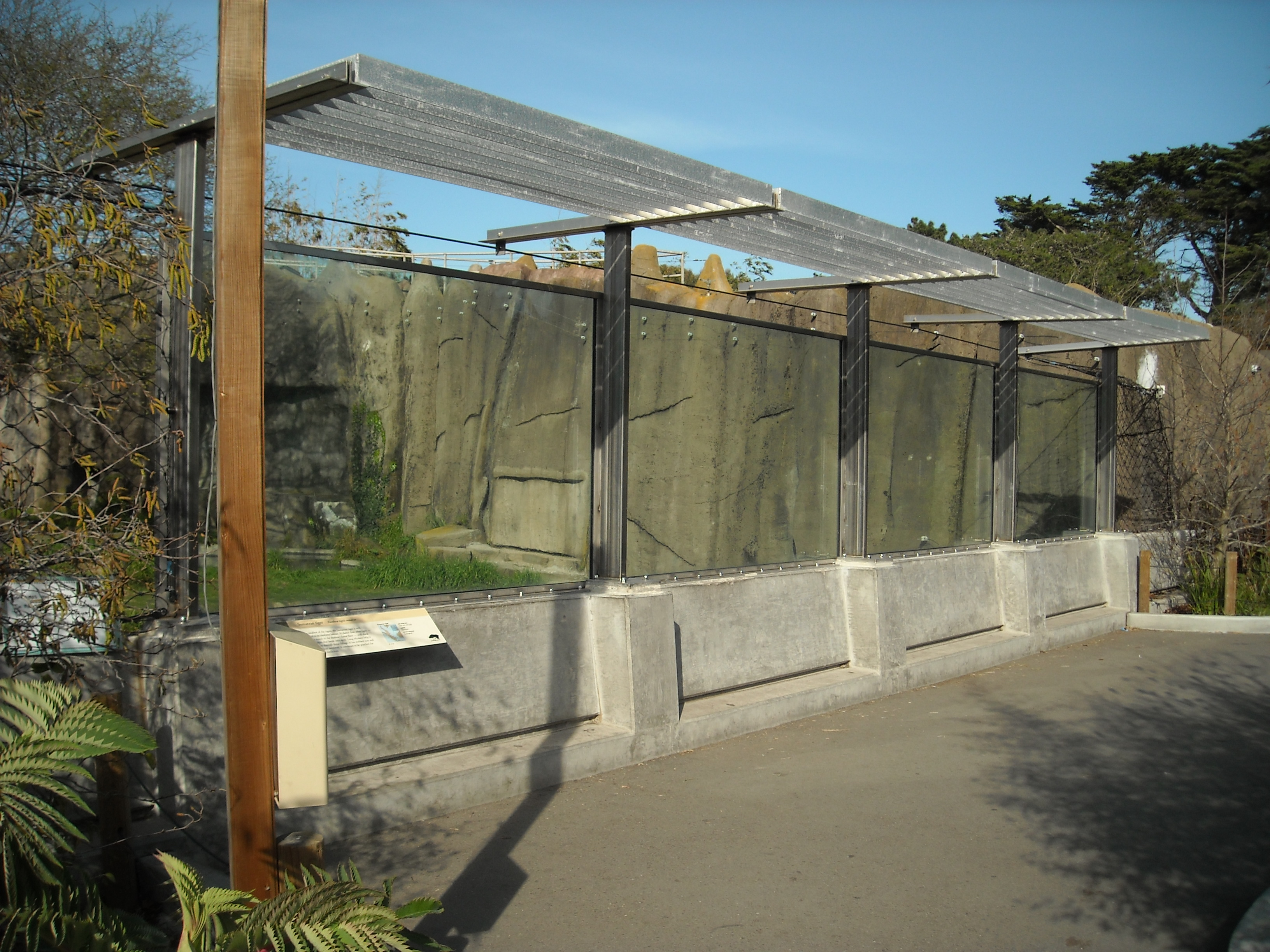 One of the updated tiger enclosures after the tiger attack at the end of 2007.